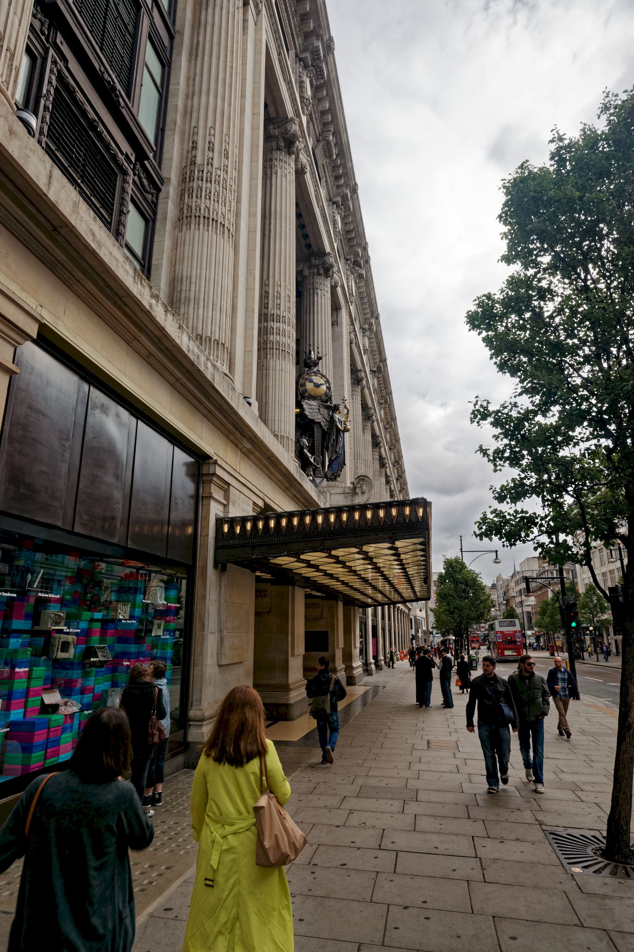 London - Oxford Street - Selfridges 1909 by Robert Atkinson & Daniel H.Burnham - View East